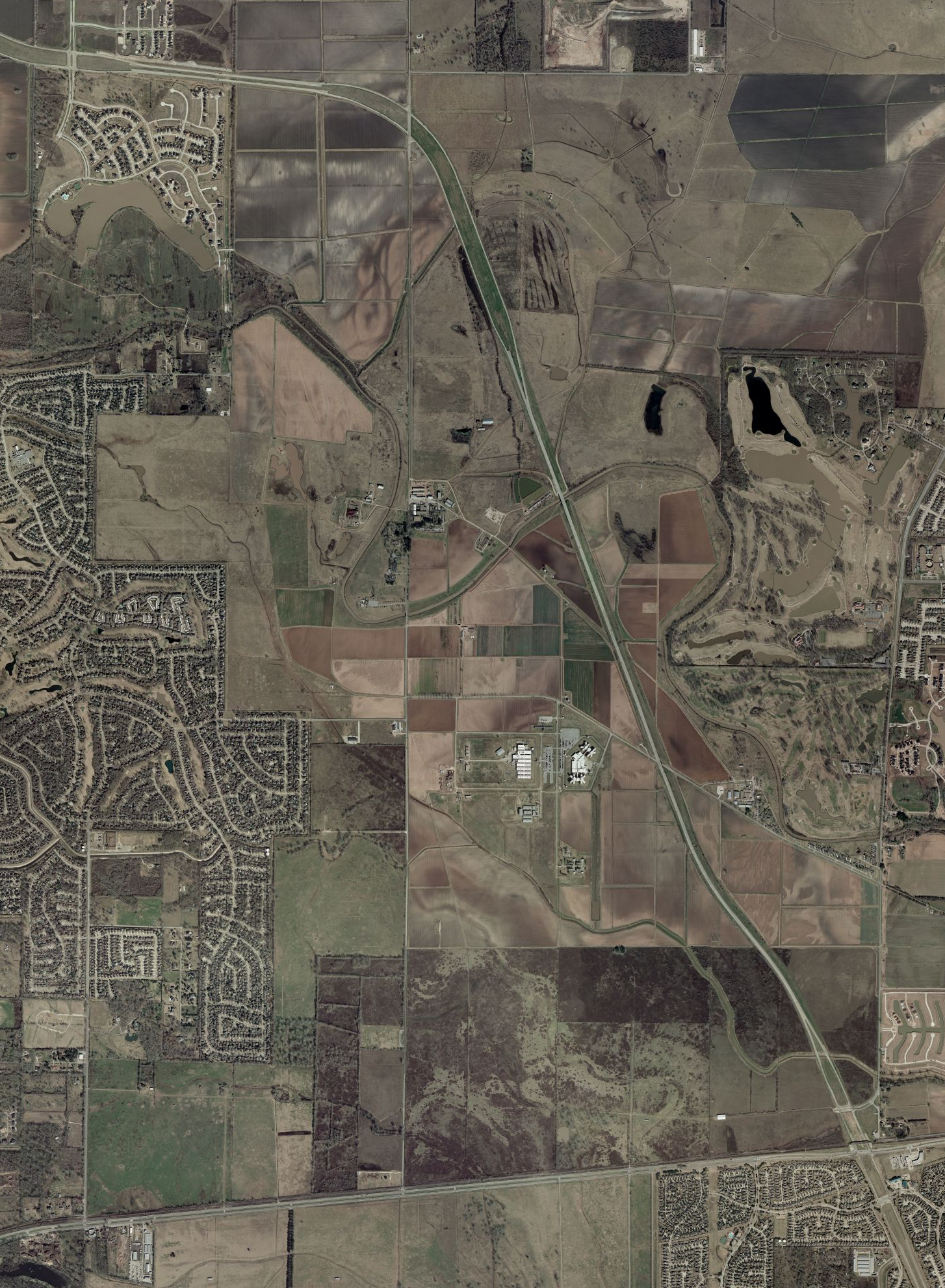 Jester State Prison Farm (Jester (Harlem) I, Vance (Jester/Harlem II), Jester III, and Jester IV units)